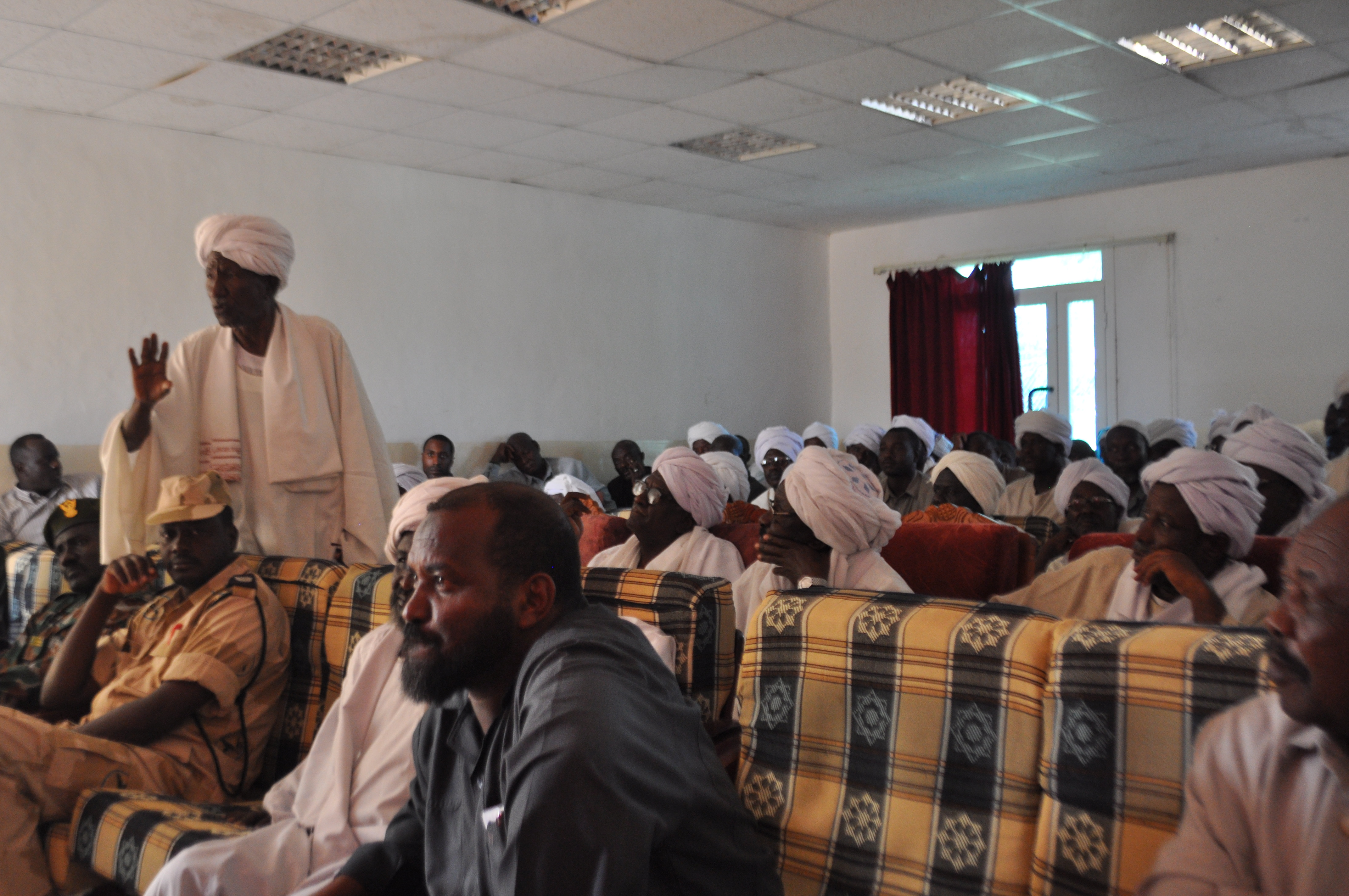 A Misseriya elder speaks out on the border demarcation decision by the Permanent Court of Arbitration in the Hague.